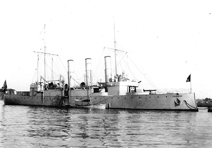 Norwegian First Class Gunboat Frithjof (1895–1927)